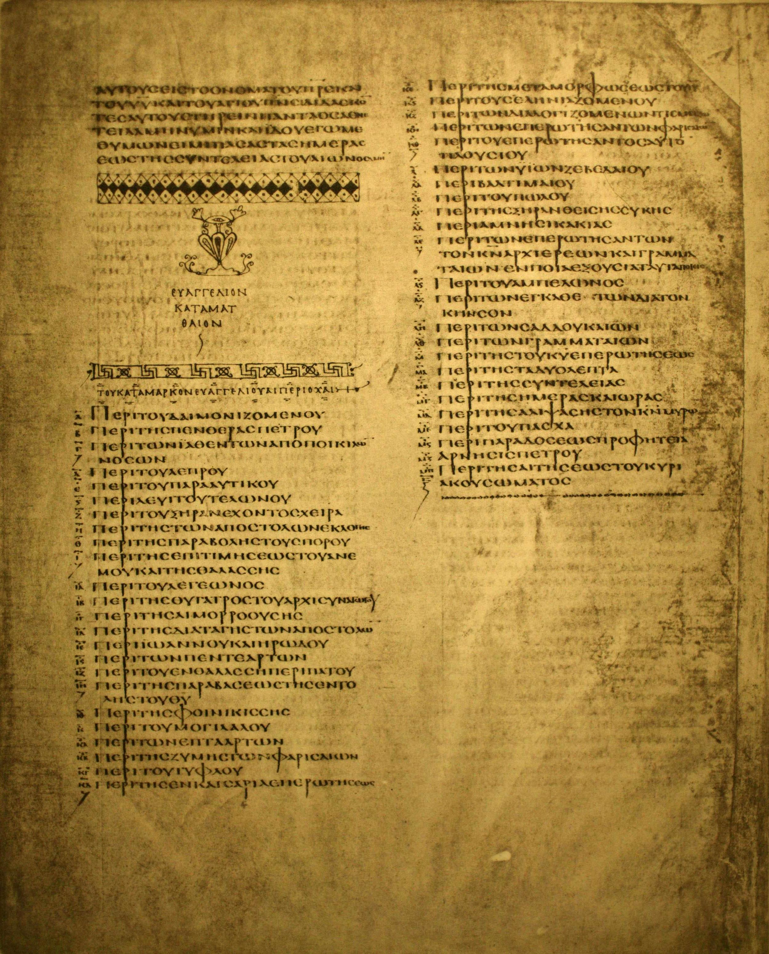 List of kephalaia (chapters) to the Gospel of Mark. List is placed after kolophon of the Gospel of Matthew and before Gospel of Mark